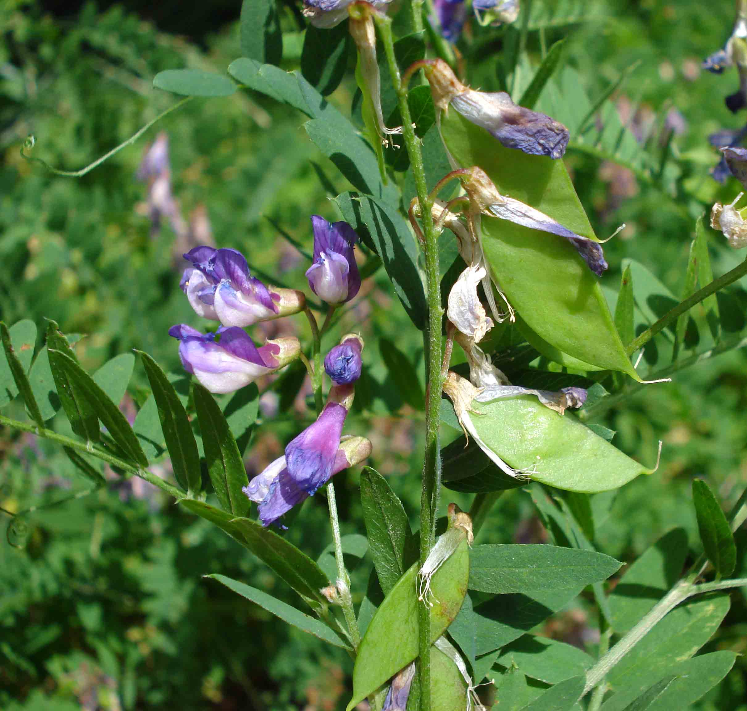 Vicia cassubica (Unterfranken, Germany)